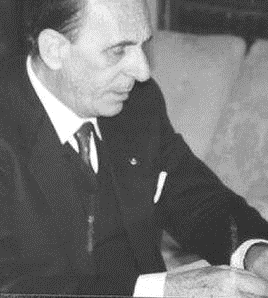 Ritratto di Silvano Panunzio